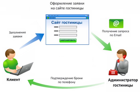 Scheme of the reservation system on request.